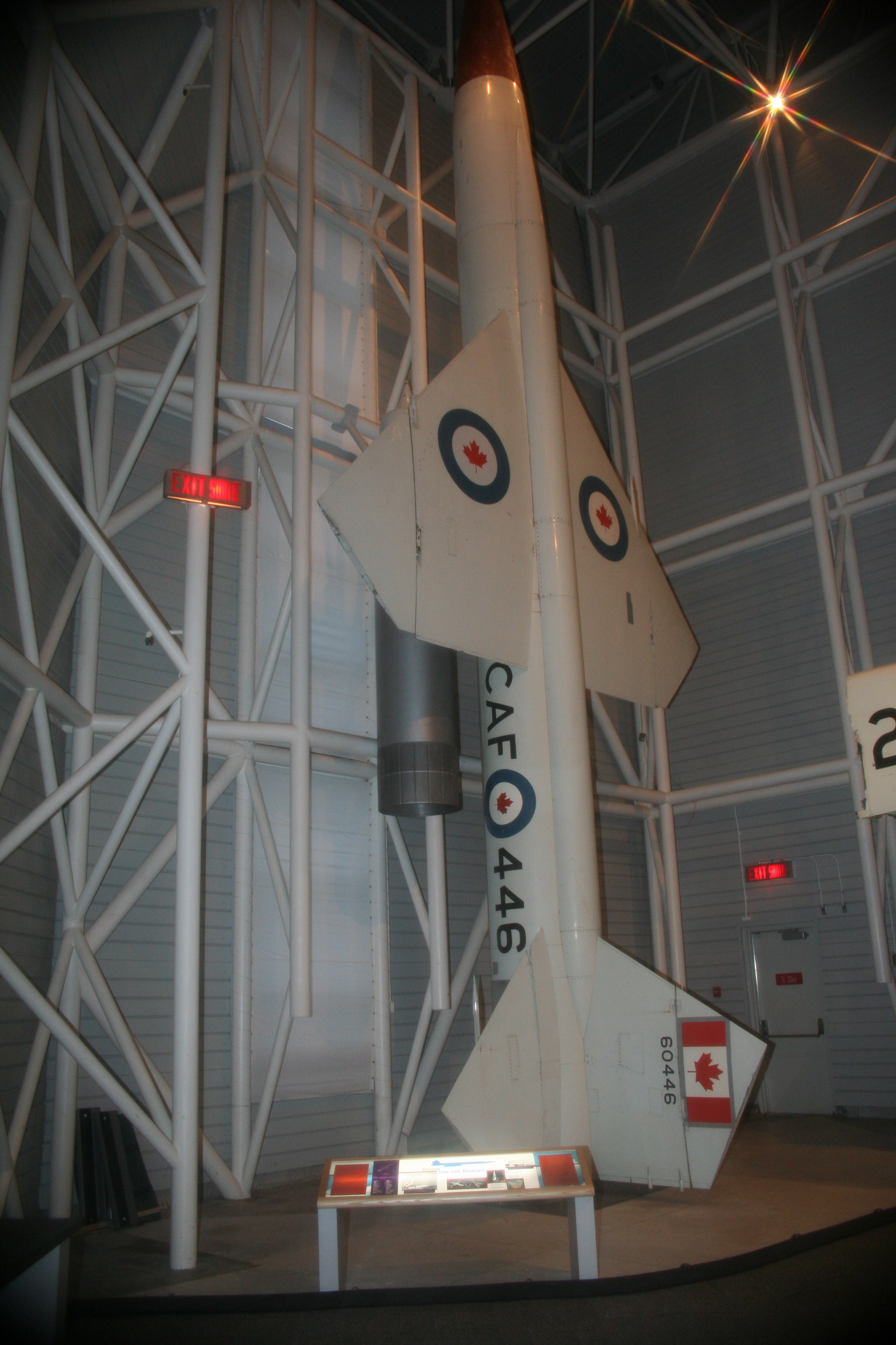 Photograph showing Bomarc B missile on display at the Canada Aviation Museum Ottawa, Ontario, Canada